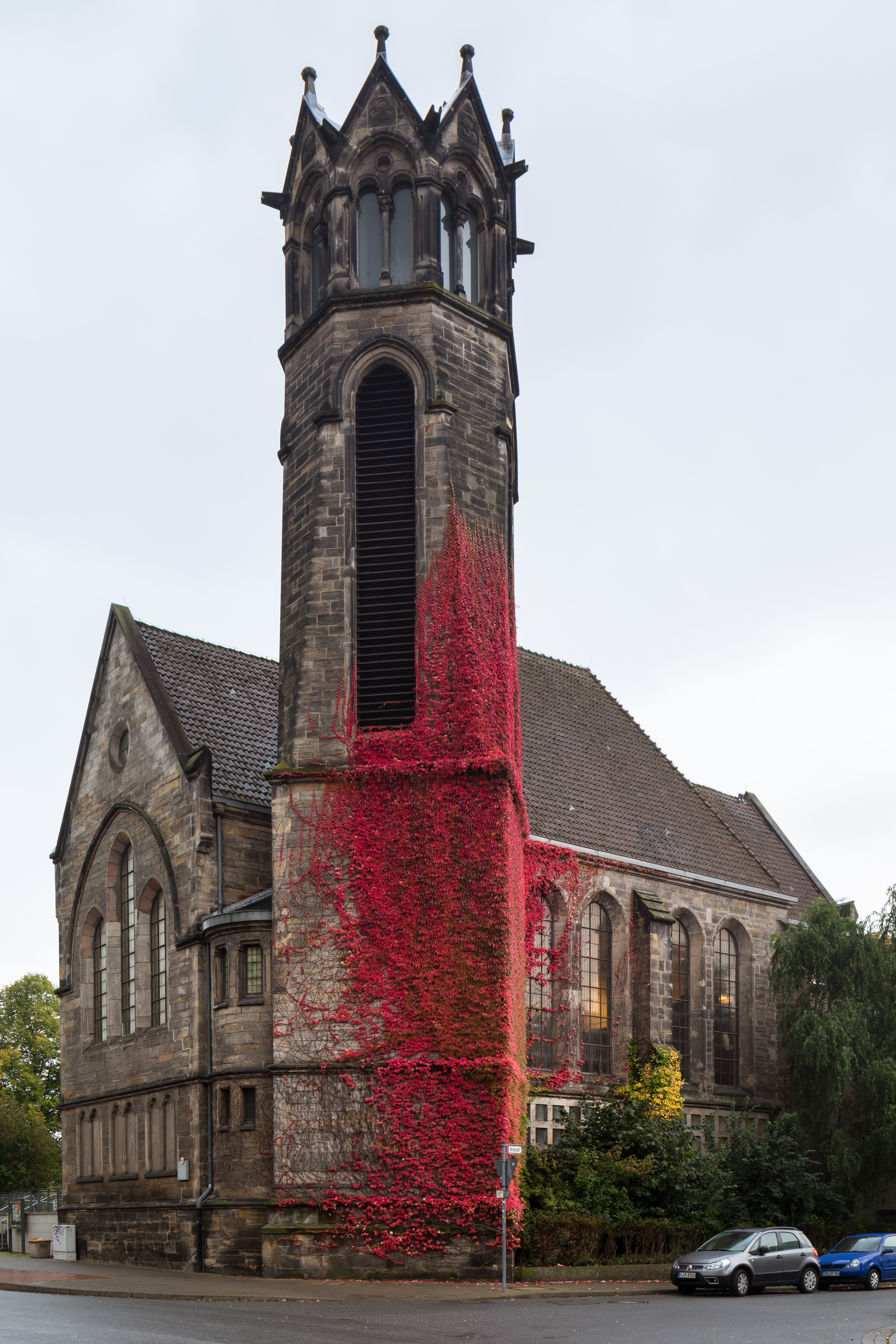 Reformed church located at Archivstrasse in Calenberger Neustadt quarter of Hannover, Germany.